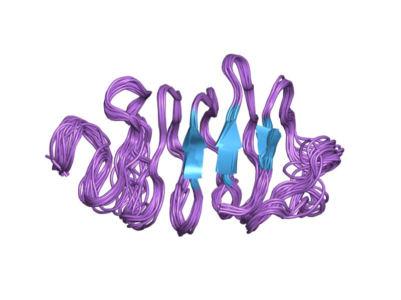 Cartoon representation of the molecular structure of protein registered with 1eww code.